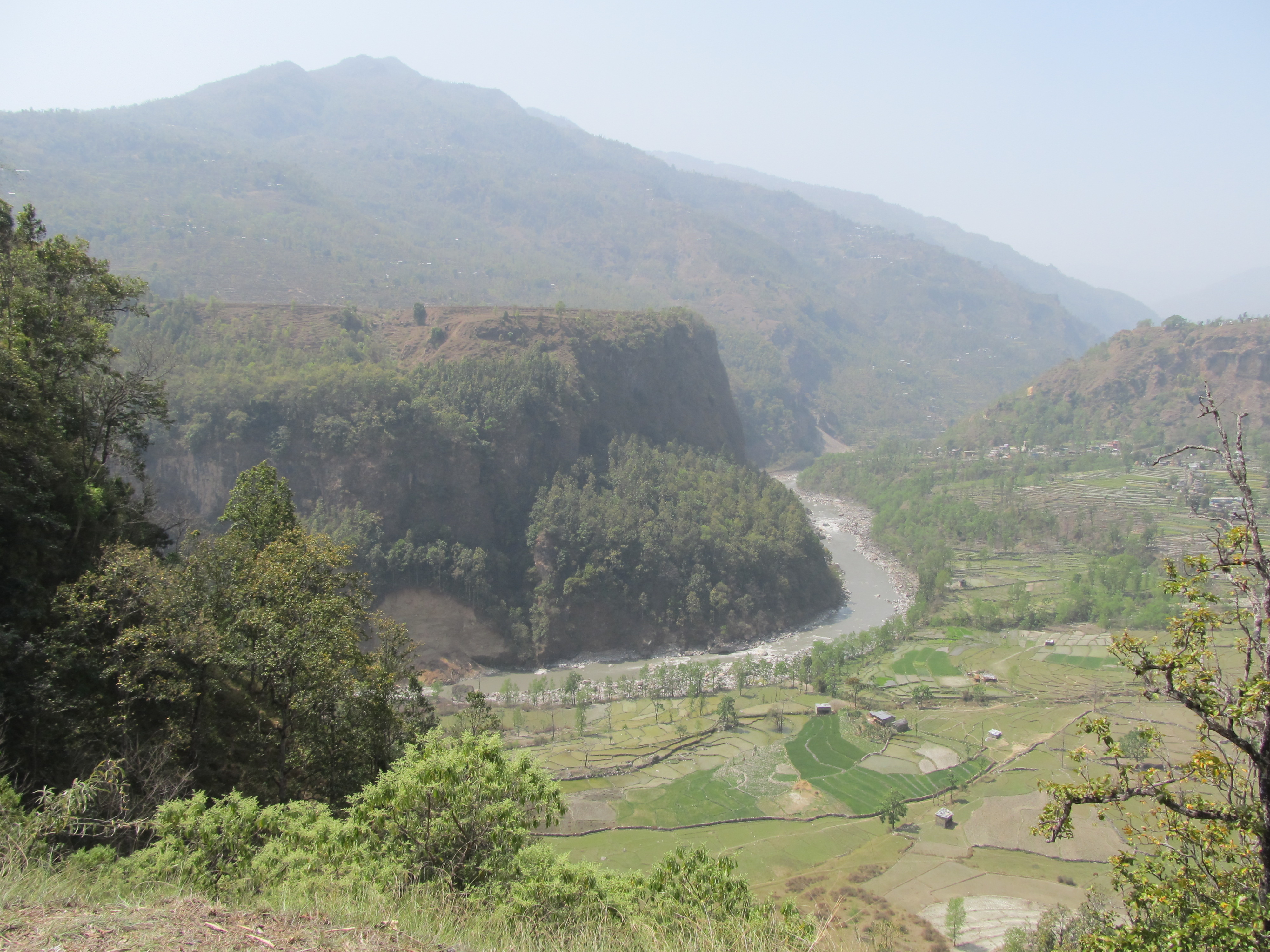 Photo taken between Kusma and Baglung